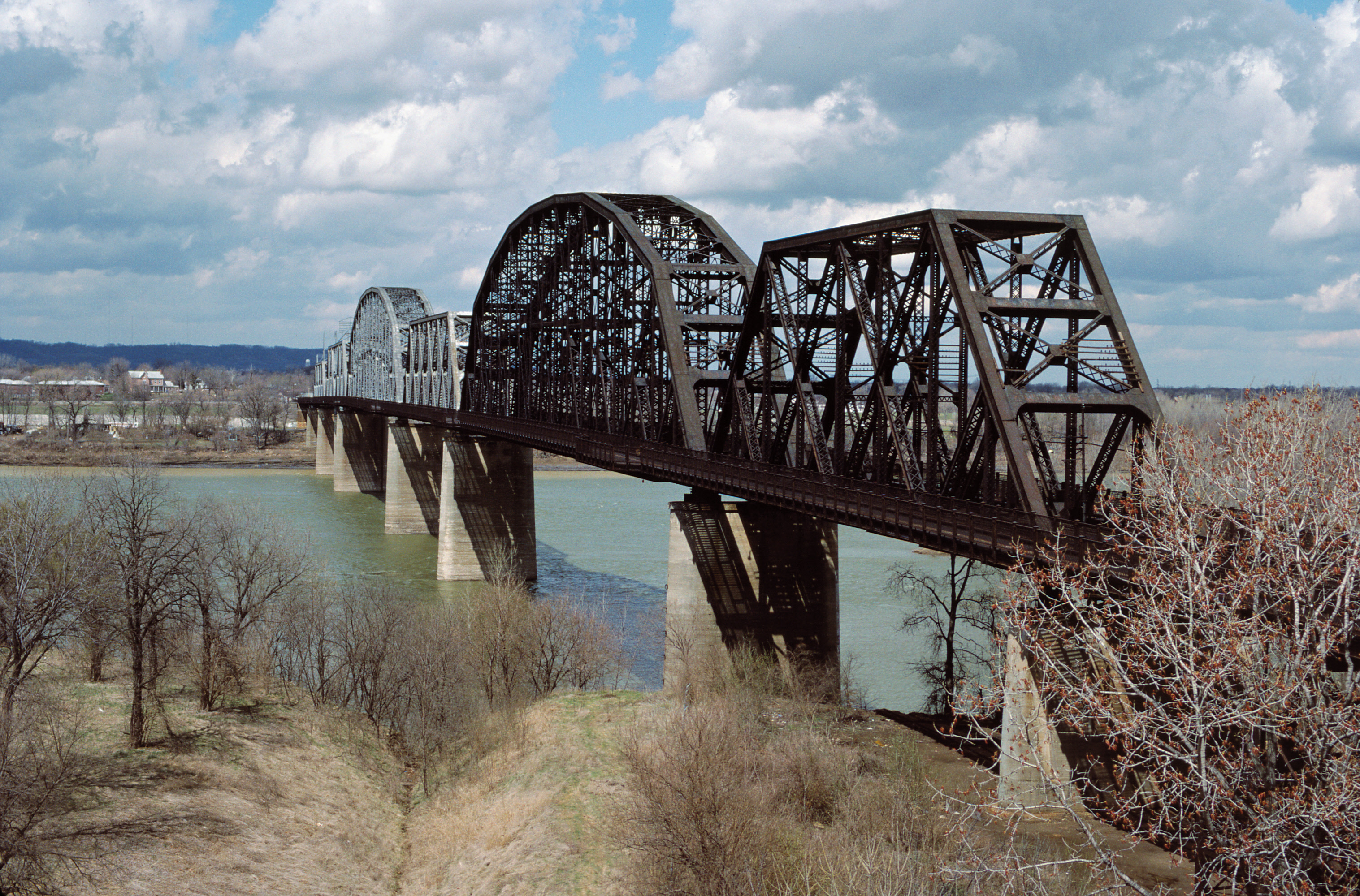 Kentucky and Indiana (K&I) Bridge (looking N from I-64 near foot of 33rd Street, Louisville, Kentucky)